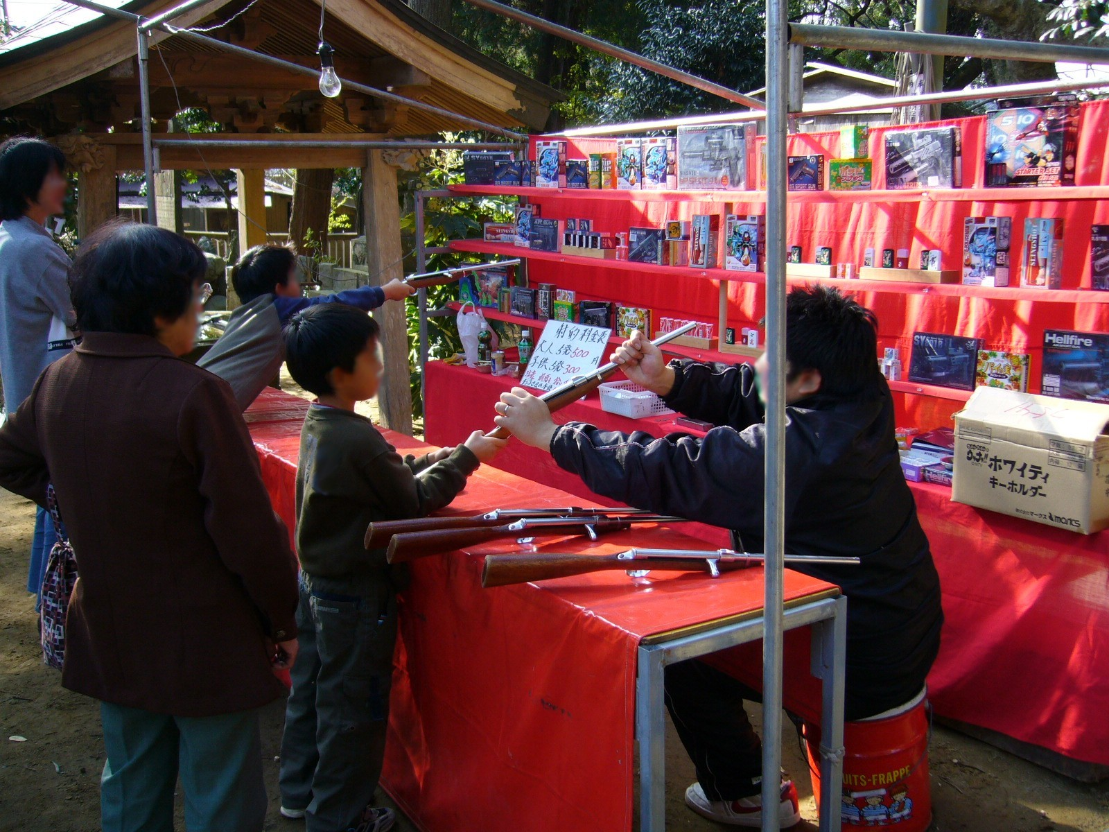 Shooting gallery,shateki,katori-city,japan